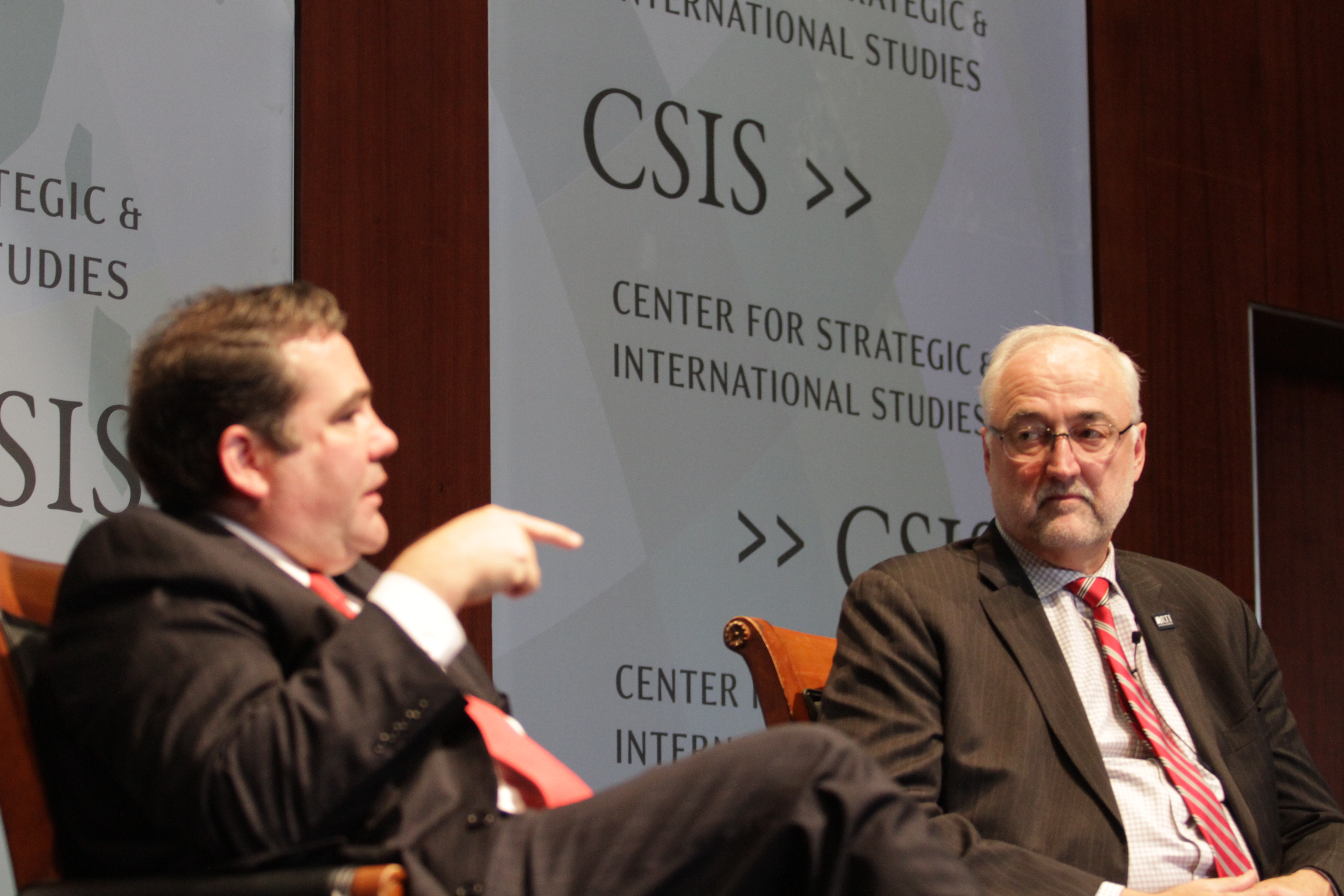 Dan Runde moderates a discussion on Innovation-led Economic Growth.